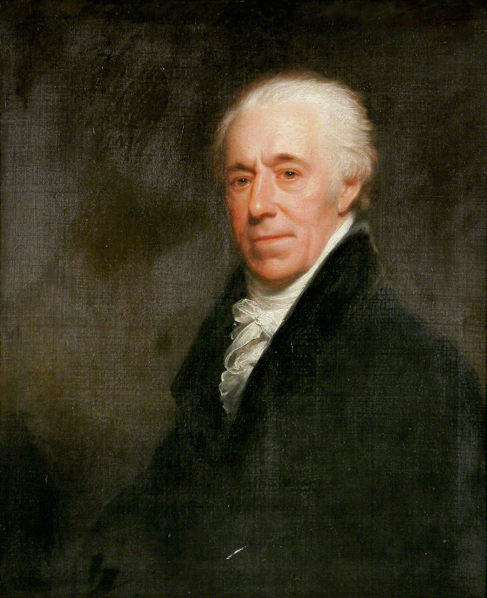 Portrait of Philip Meadows Martineau (1752–1829), English surgeon.